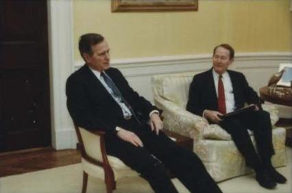 PRESIDENT AND MRS. BUSH MEET WITH EDUCATION SECRETARY-DESIGNATE LAMAR ALEXANDER; DAVID KEARNS, CHAIRMAN AND CEO OF XEROX; ROGER PORTER AND GOV. SUNUUNU IN THE WEST SITTING ROOM. THE PRINCIPALS HAVE LUNCH IN THE RESIDENCE DINING ROOM.